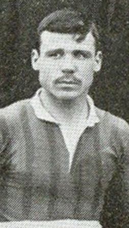 George Gates while with Brentford FC in 1905/06